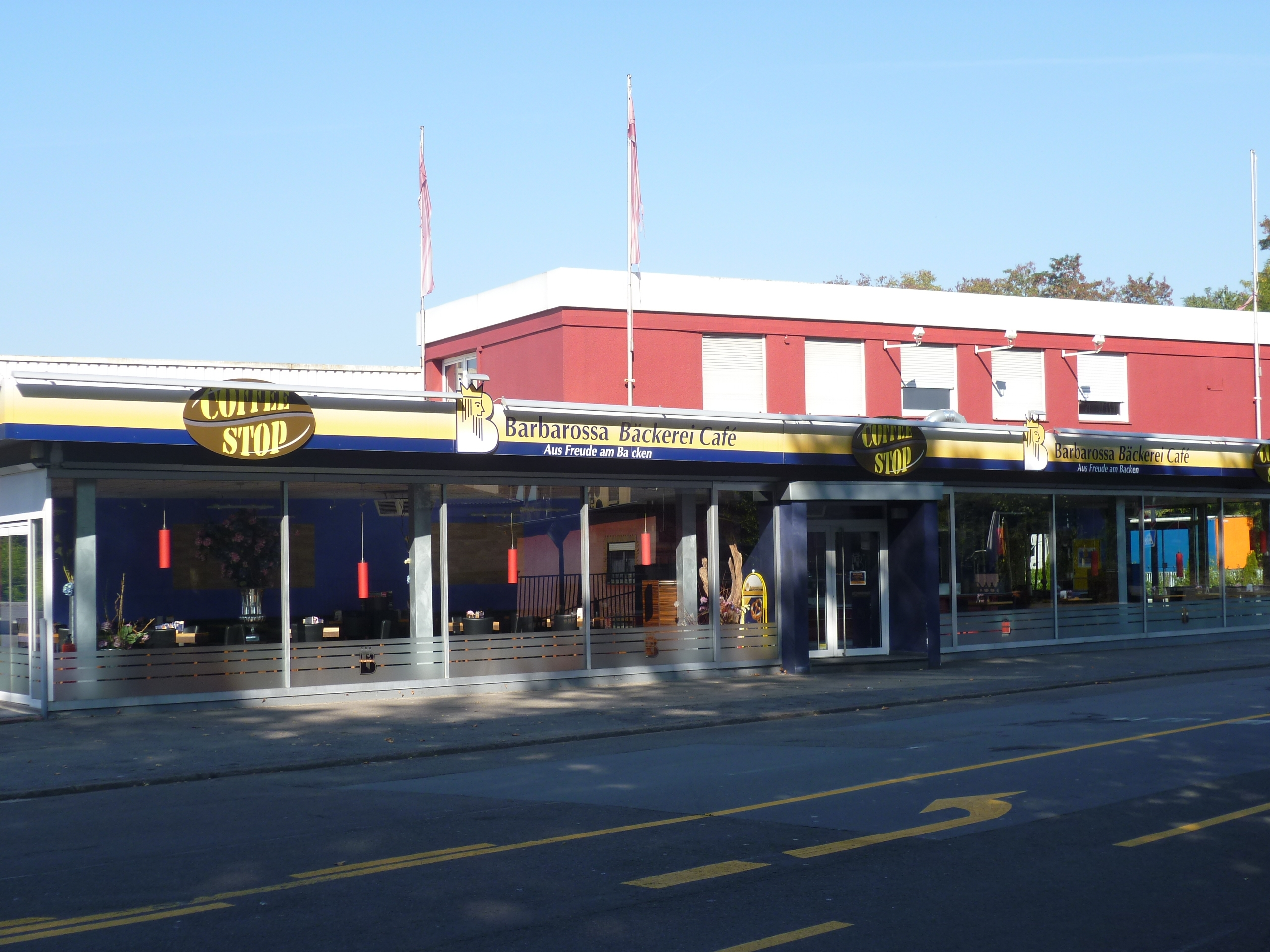 Store of the Barbarossa Bäckerei in Neunkirchen (Saar)